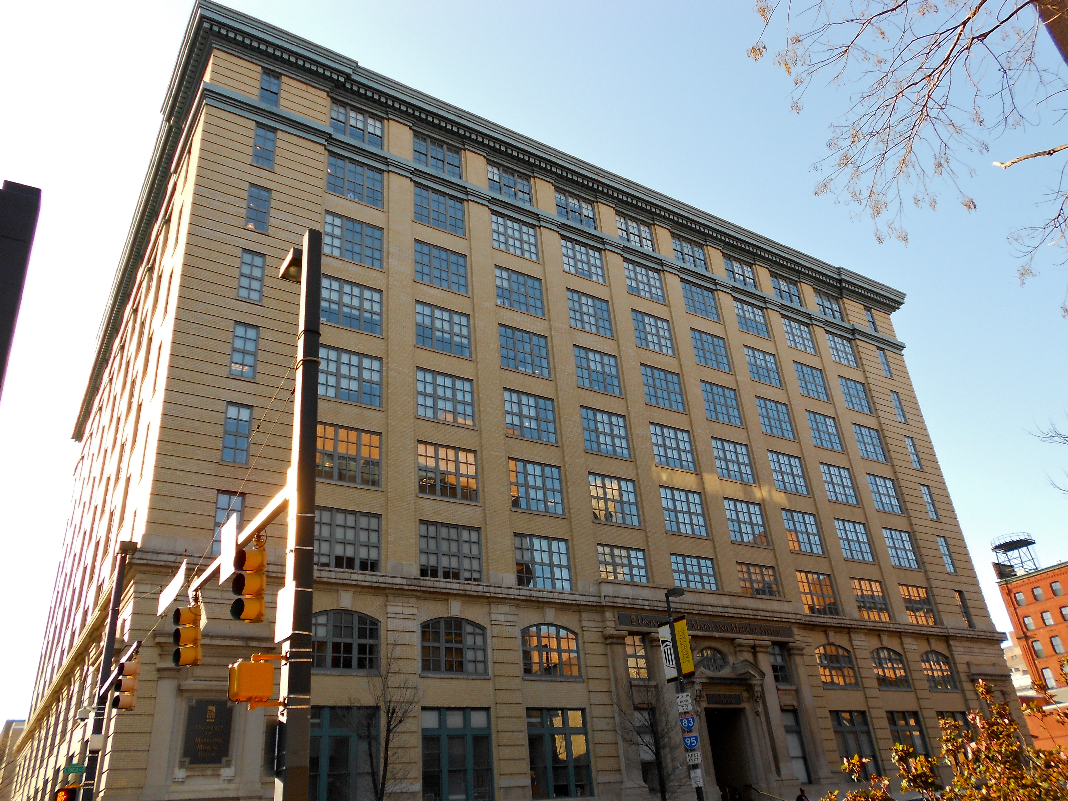 Sonneborn Building on the NRHP since October 29, 1982. At 110 S. Paca St. in south Baltimore, Maryland. Also part of the NRHP South Loft historic district